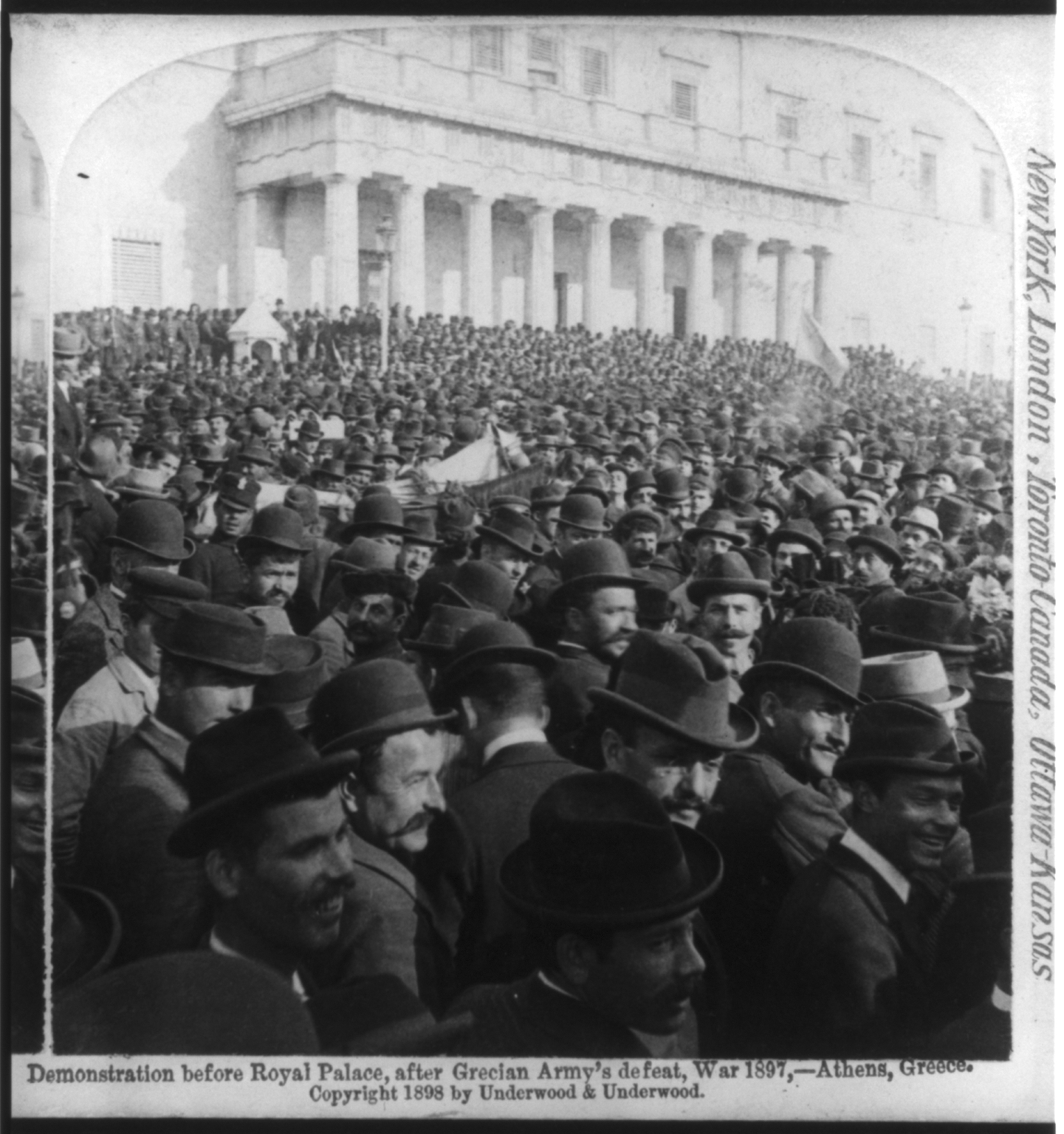 Demonstration before the Royal Palace at Athens, after the Greek Army's defeat in the war with Ottoman Turkey in 1897